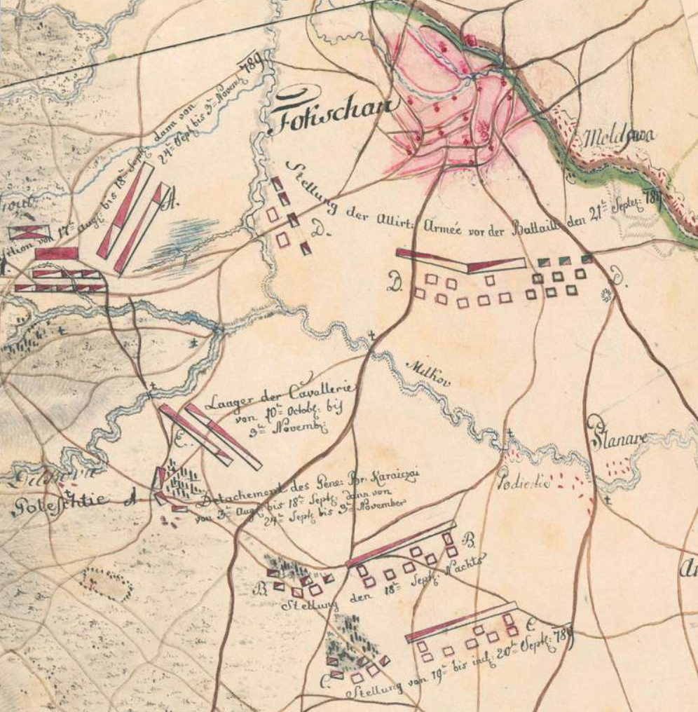 September Octomber 1789 Austrian forces deployment near Focsani